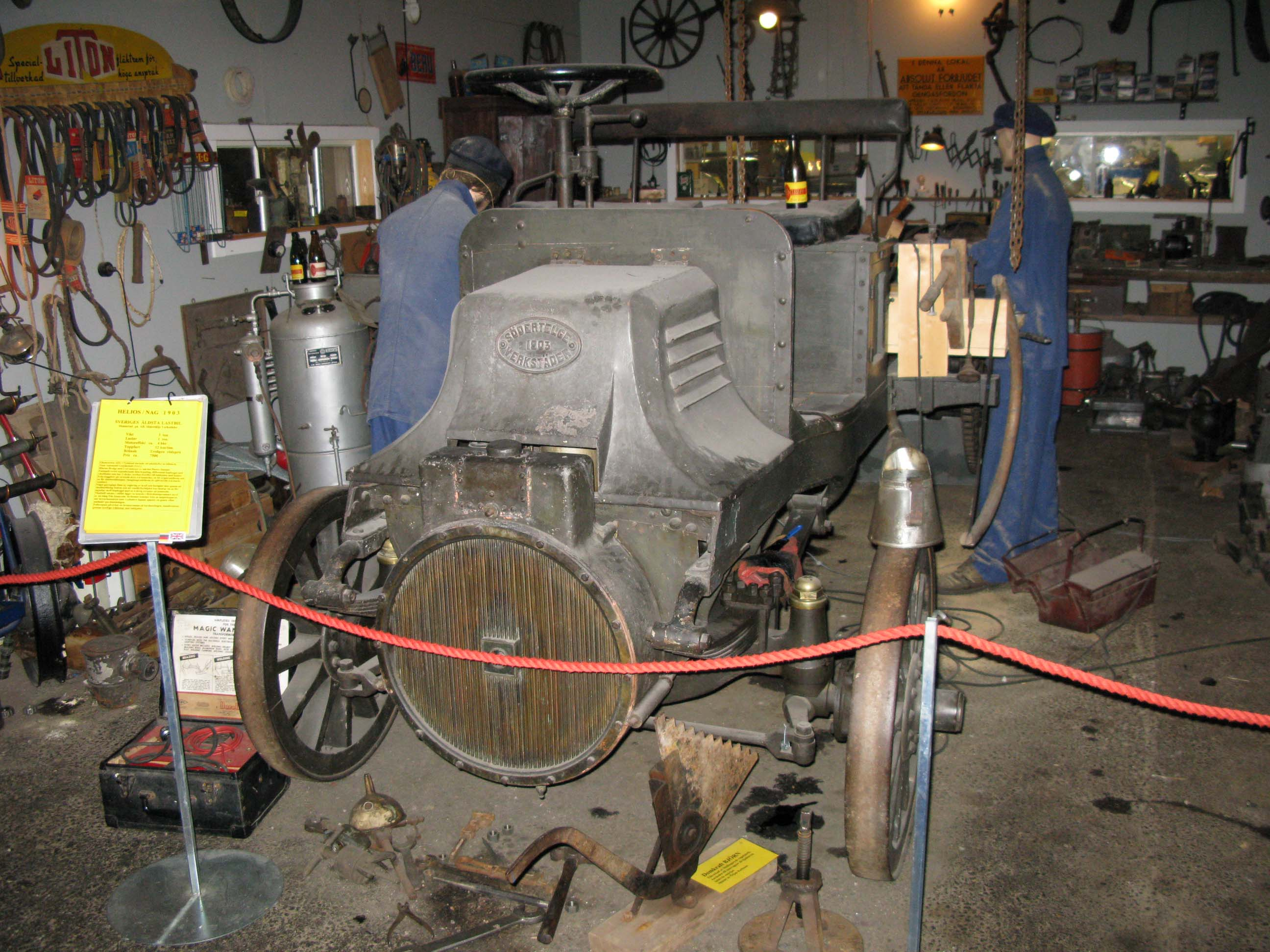 1903 Helios lorry, assembled at Södertelge Verkstäder under licence by German N.A.G..Location: Motala Motormuseum, Sweden